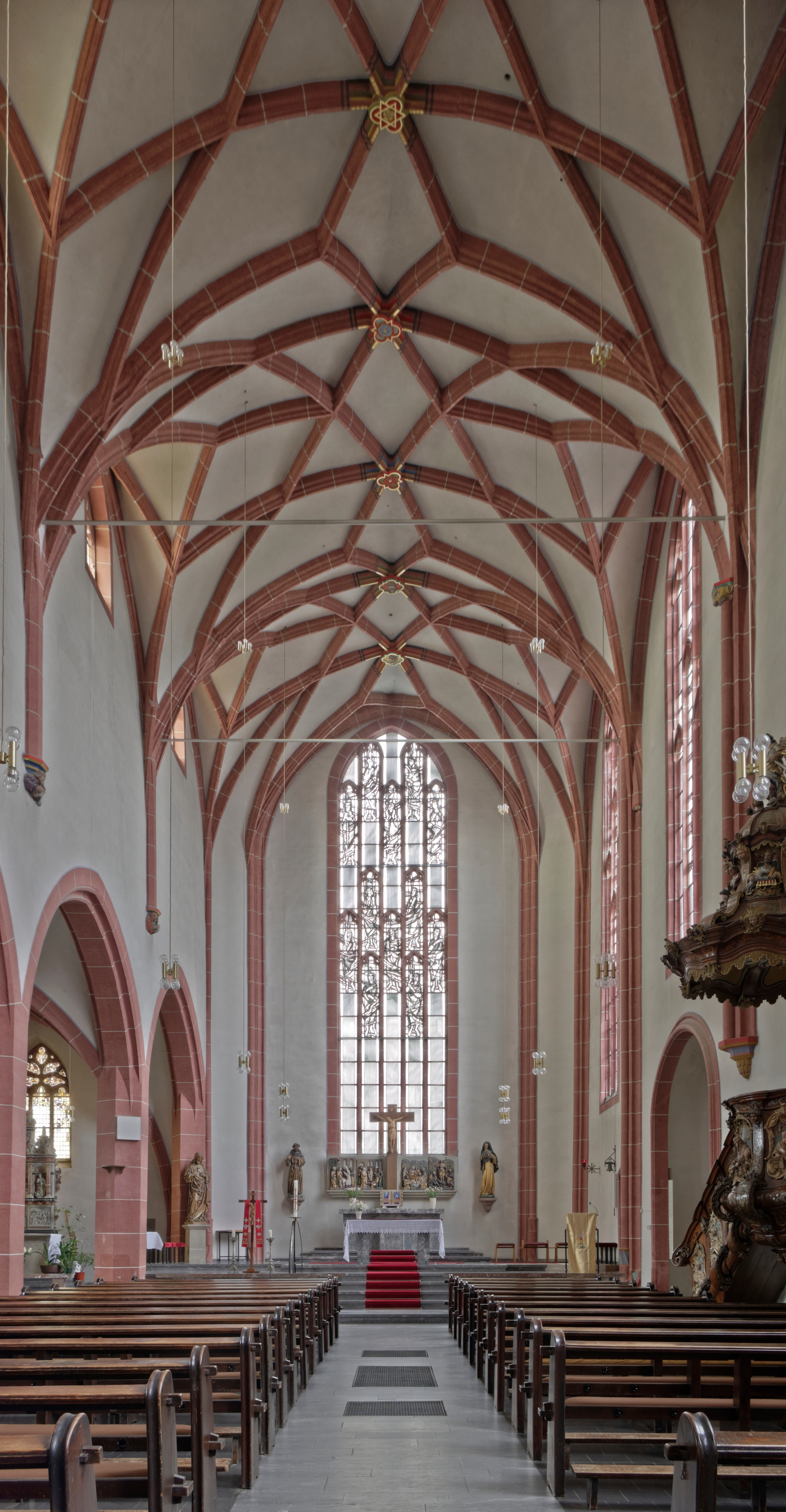 Germany, Trier, St. Antonius church, nave